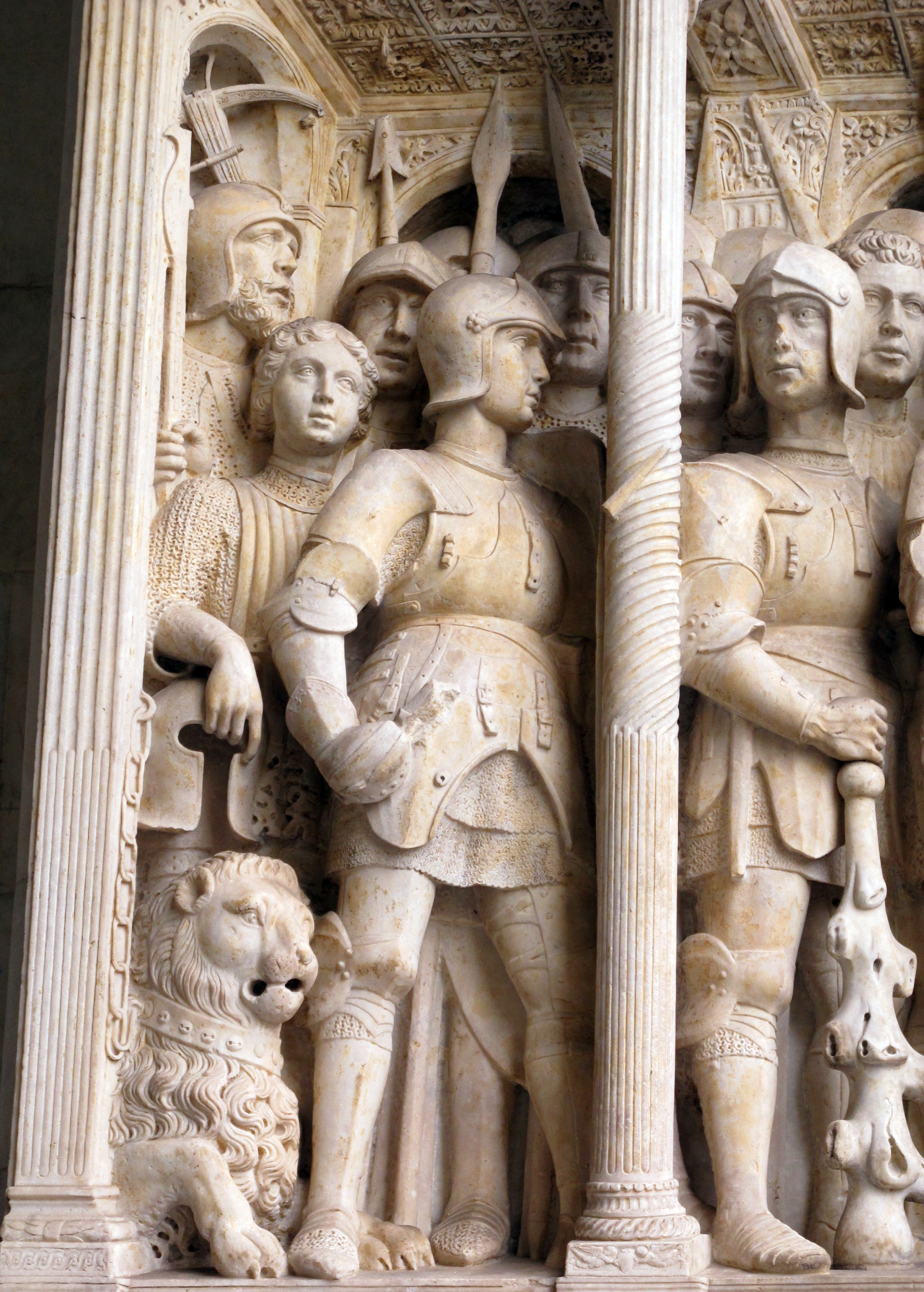 Castel Nuovo (Naples) - Triumphal arch